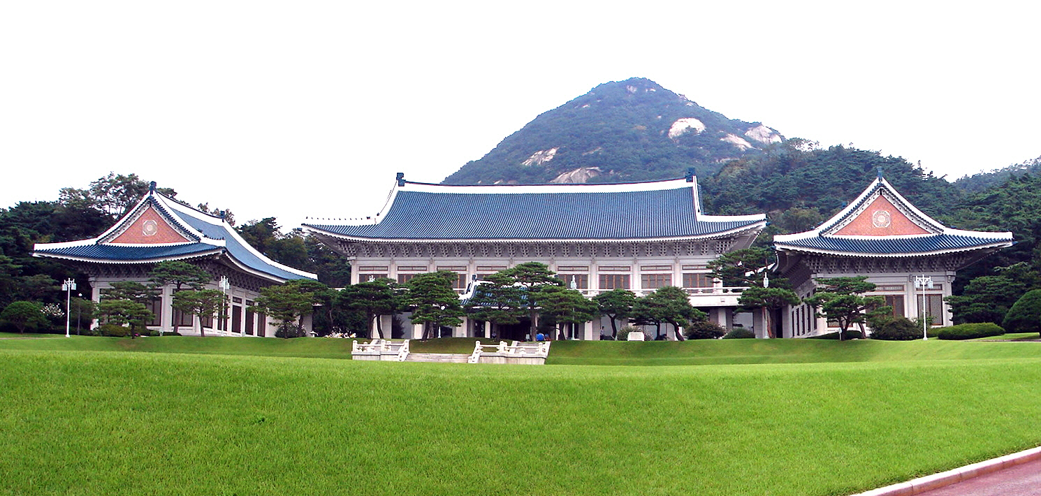 Reception Center at Cheongwadae or "Blue House", the South Korean presidential residence in Seoul South Korea.